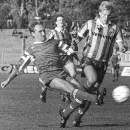 Title: 1. FC Lok Leipzig - HFC Chemie 0:3 Factual corrections and alternative descriptions are encouraged separately from the original description. Additionally errors can be reported at this page to inform the Bundesarchiv. Original historic description: ADN-Friedrich Gahlbeck-6.10.90- Leipzig: Fußball-Oberliga- 1. FC Lok Leipzig - HFC Chemie 0:3 (0:3) Uwe Machold (l.) erzielt das dritte Tor für die Hallenser. Der Lok-Spieler Jörg Wunderlich kann nicht eingreifen.